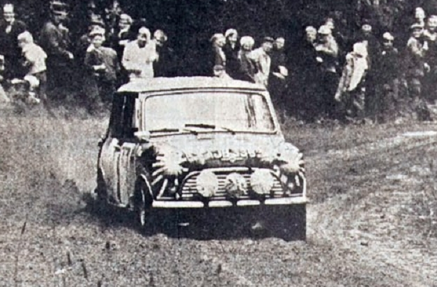 Eventual winner Timo Mäkinen drives his Mini Cooper S at the 1965 1000 Lakes Rally (Rally Finland).